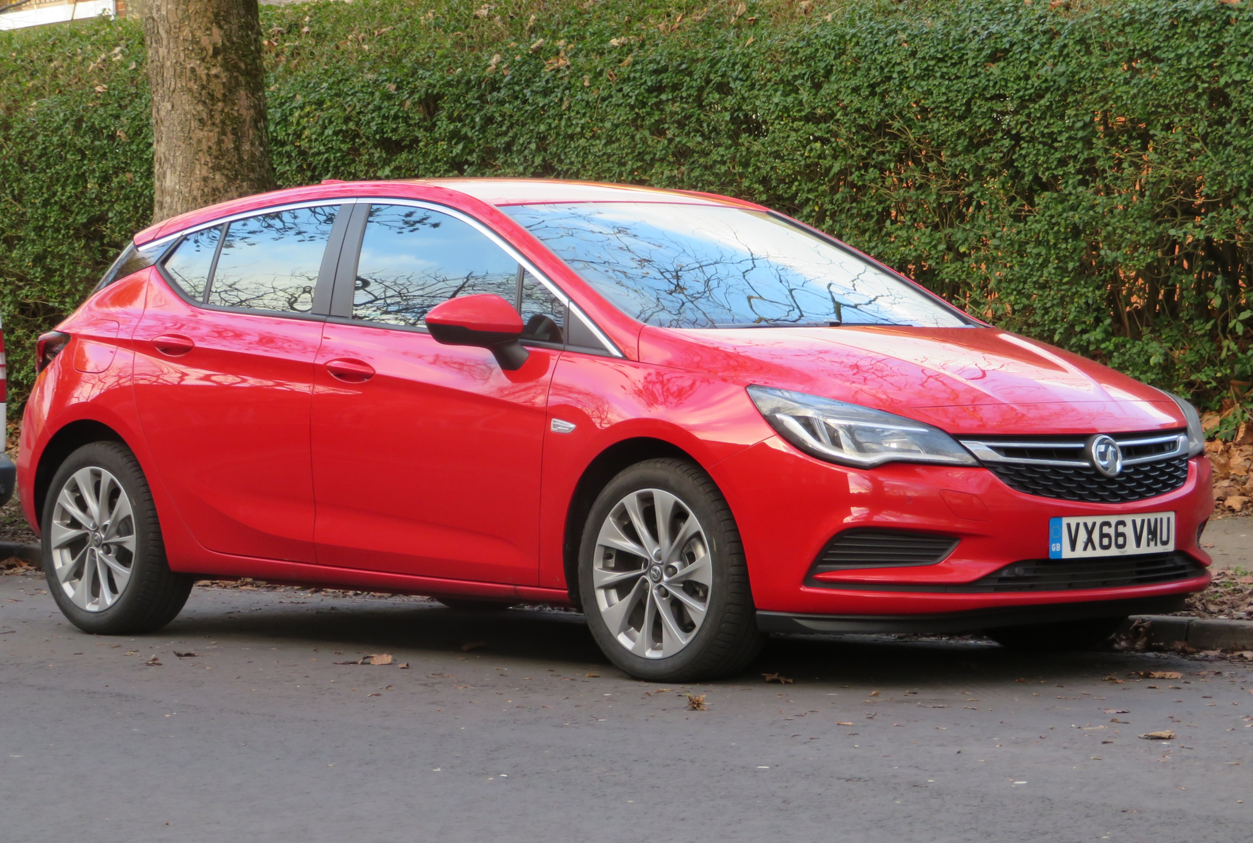 Vauxhall Astra in Cardiff (2017) The license plate has been changed for anonymisation purposes. The year code remains correct, however.